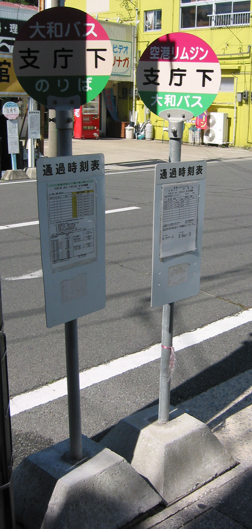 Daiwa Bus Shicho-shita Bus Stop in Minamitane Town, Kagoshima Prefecture, Japan